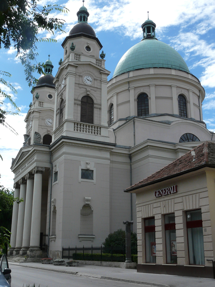 Cegléd (Hungary)